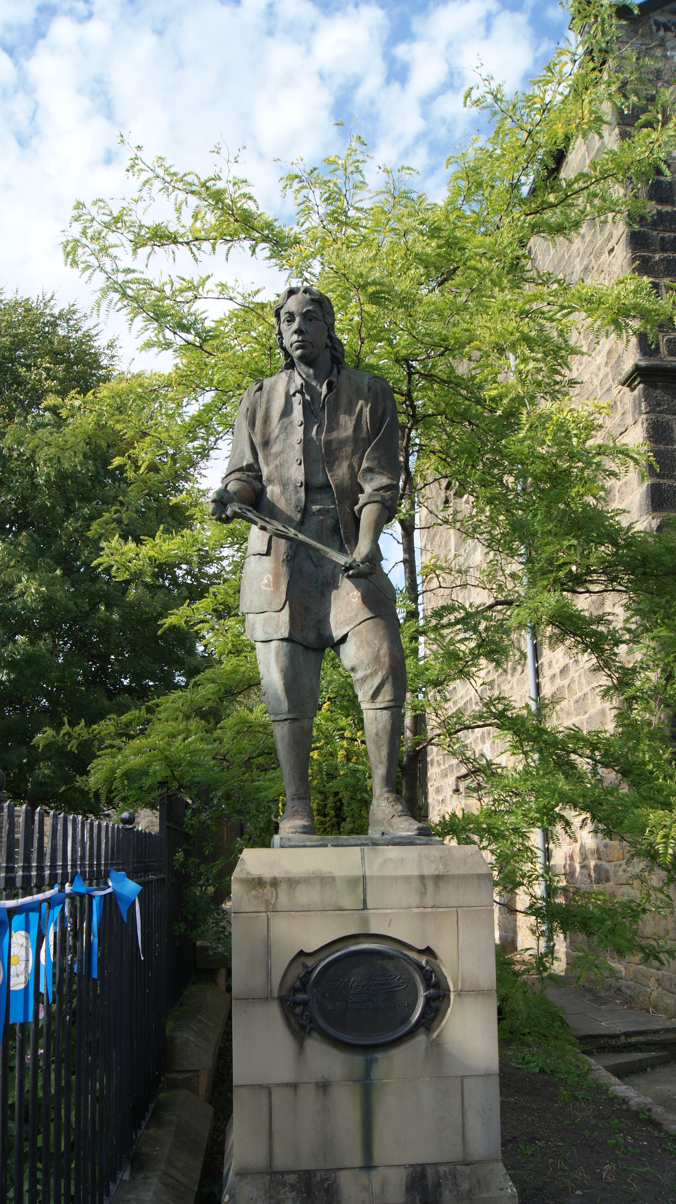 Thomas Chippendale statue, Clapgate, Otley, West Yorkshire. Taken on the afternoon of Monday the 28th of August 2017 (summer bank).